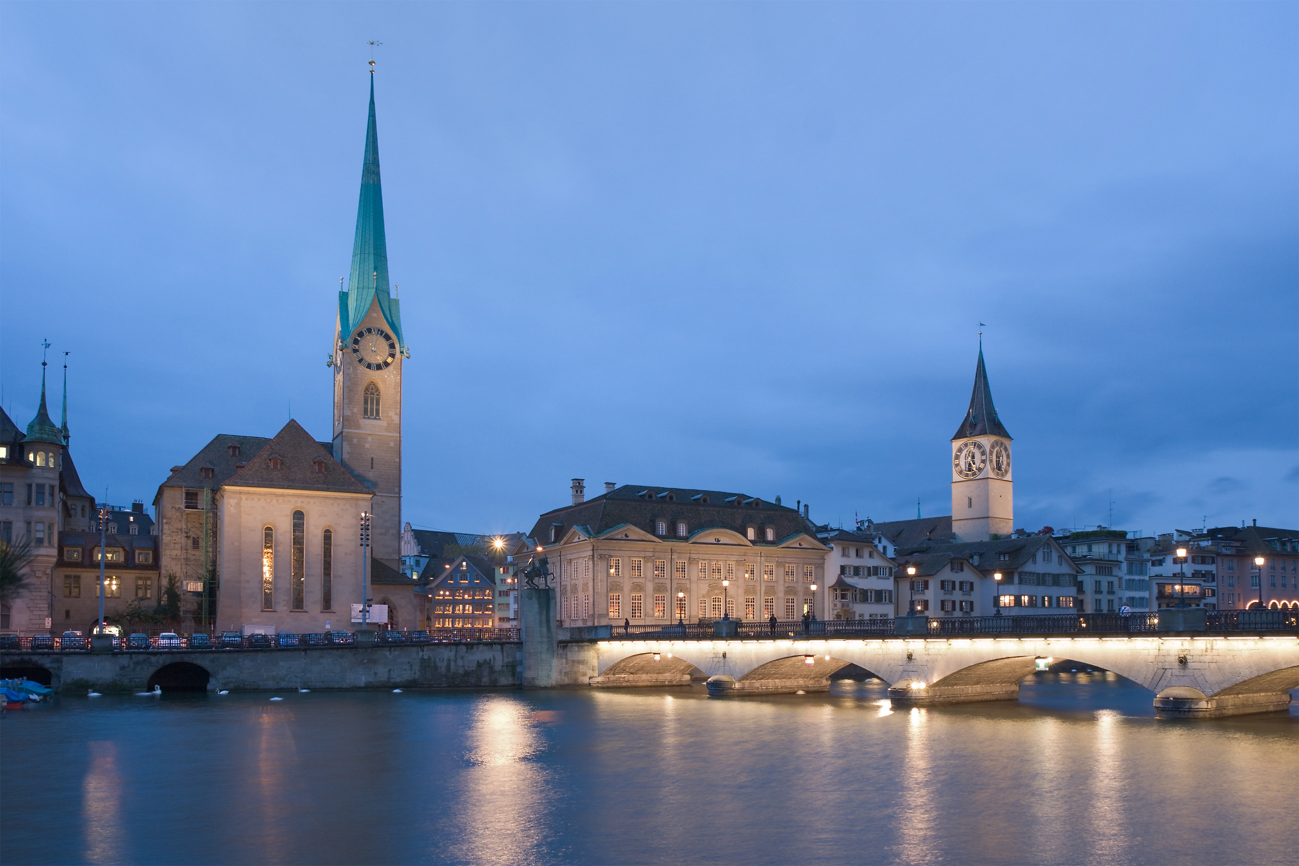 Zunfthaus zur Meisen, Münsterbrücke and St. Peter church in Zürich